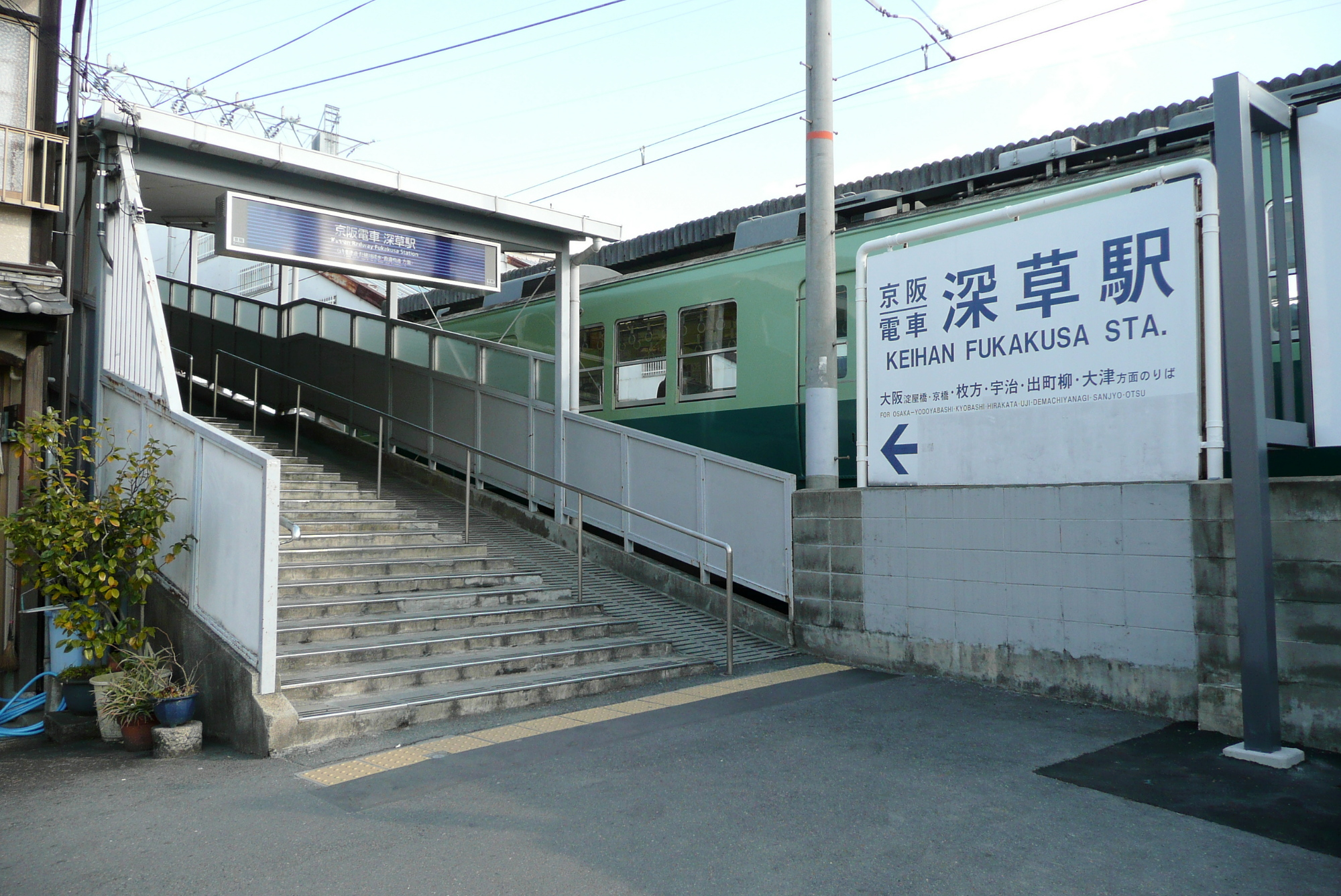 Keihan Electric Railway,Keihan Main Line,Fukakusa Station west entrance. / 京阪線深草駅西口